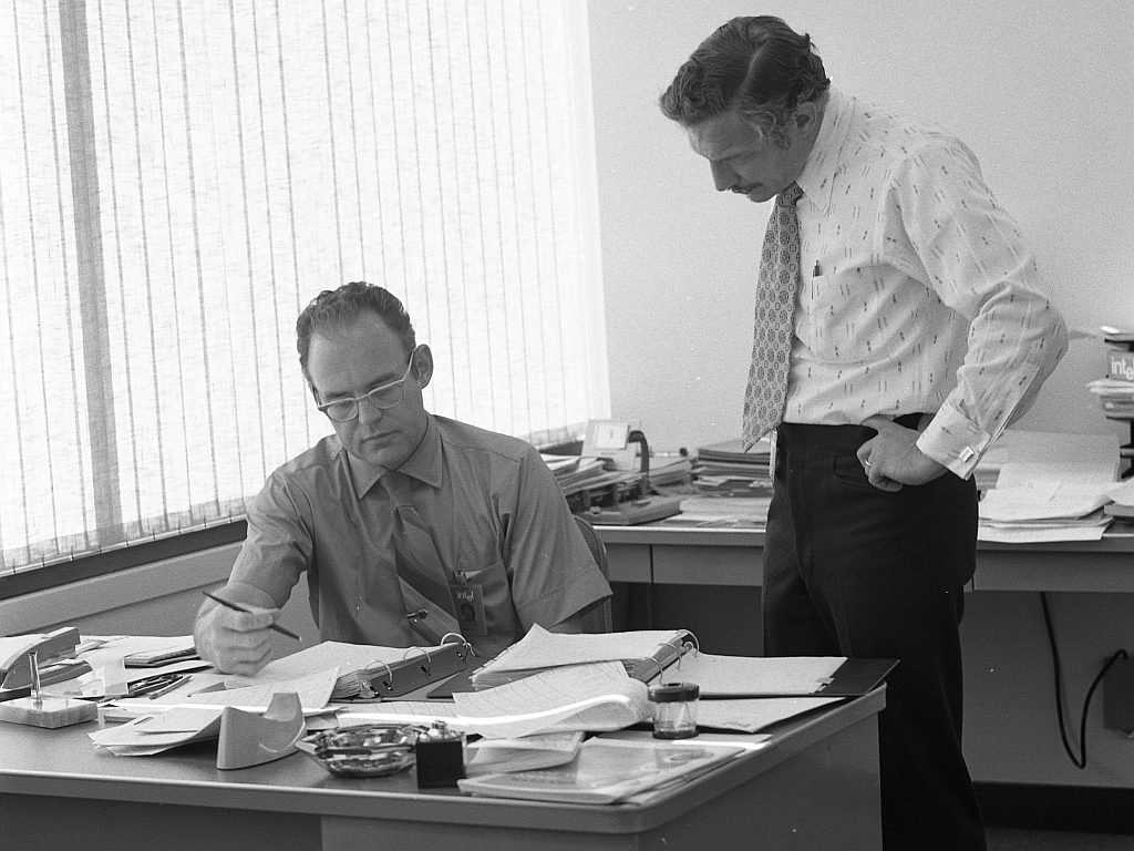 "I didn't realize how valuable it was to start over again. We could do things our way from the beginning, unlike when we were at Shockley," said Gordon Moore (left) with Robert Noyce.